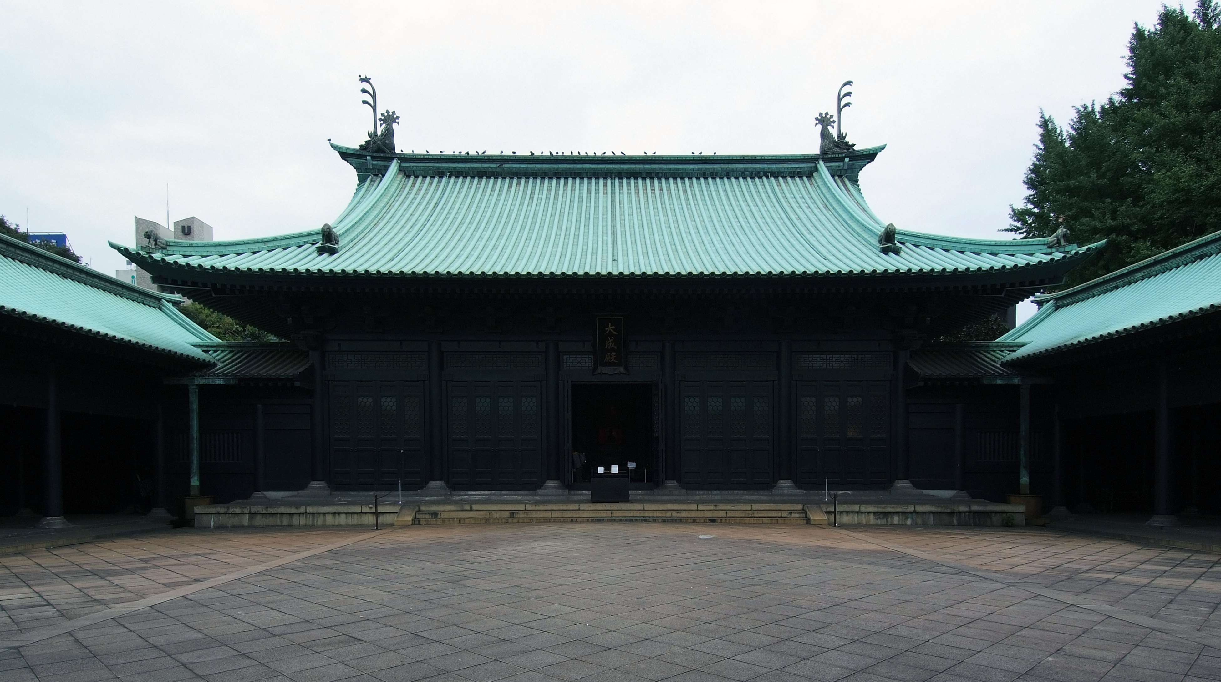 Taisei-Den of Yushima Seidō, at Ochanomizu Tokyo Japan, design by Chuta Ito in 1935.